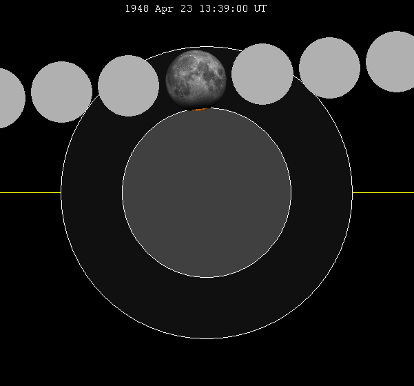 Lunar eclipse chart of moon's path through the earth's shadow. thumb